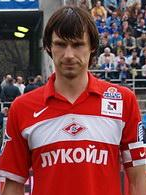 Egor Titov, Russian footballer